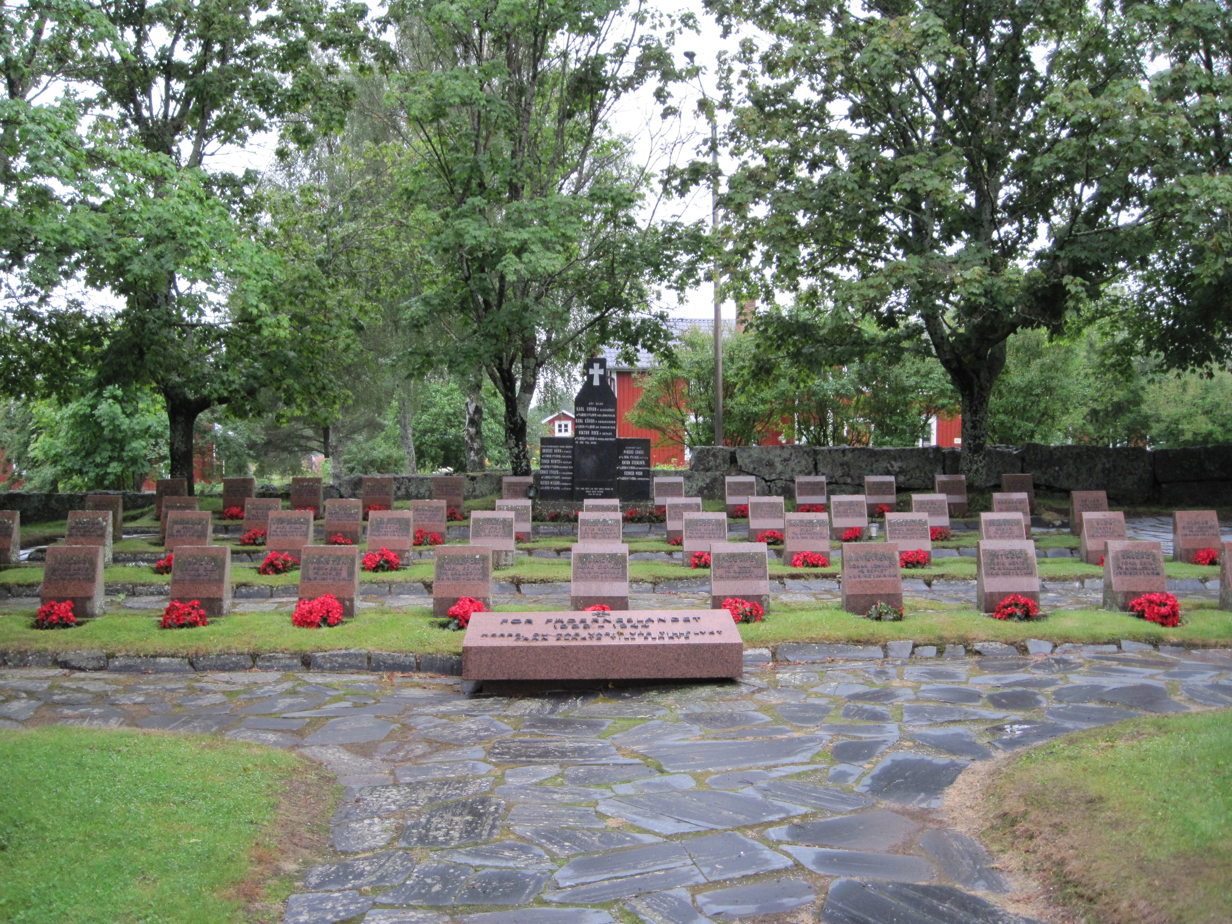 Military cemetary at church in Raippaluoto, Finland